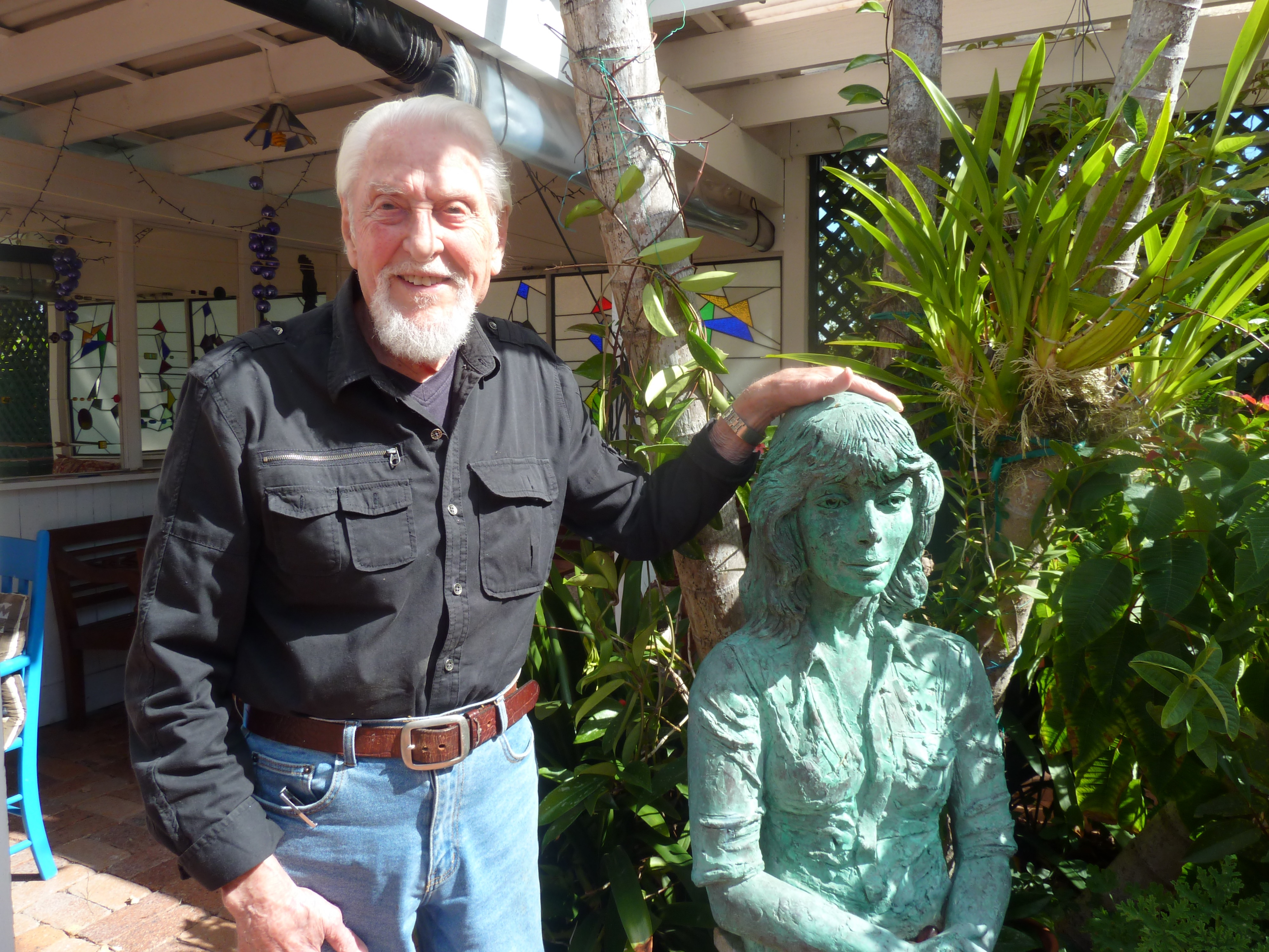 Mark Clark (Sculptor) at his Home, May 2016